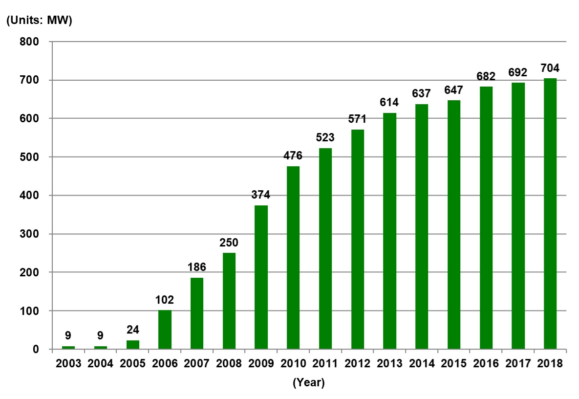 The picture is drawn by the author. Data source is from Bureau of Energy, Taiwan. Its license is "In order to facilitate the public to better utilize the website information, all of Bureau of Energy, Ministry of Economic Affairs’ publicly posted information and materials that are protected under copyright provisions may be reauthorized for public use without cost in a non-exclusive manner. The users are not limited to time and by region to reproduce, adapt, edit, publicly transmit or utilize with other methods, and as well as to develop various products or services (herein known as derivations). This authorization will not be retracted hereafter, and the users do not have to acquire any written or other methods of authorization from the Administration. However, when using it, the user should state the source."